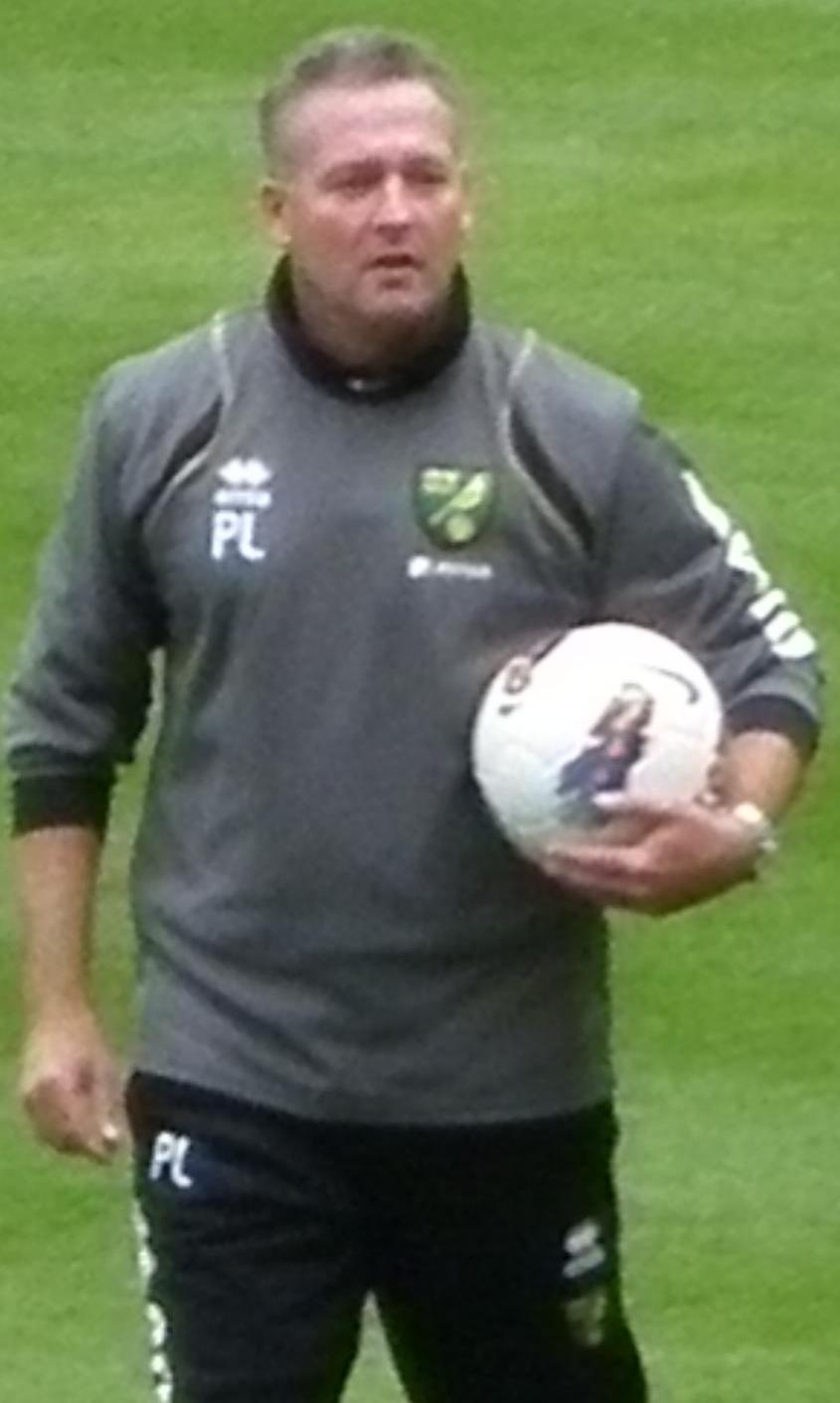 Paul Lambert at Norwich City's open training session on 2 August 2011.